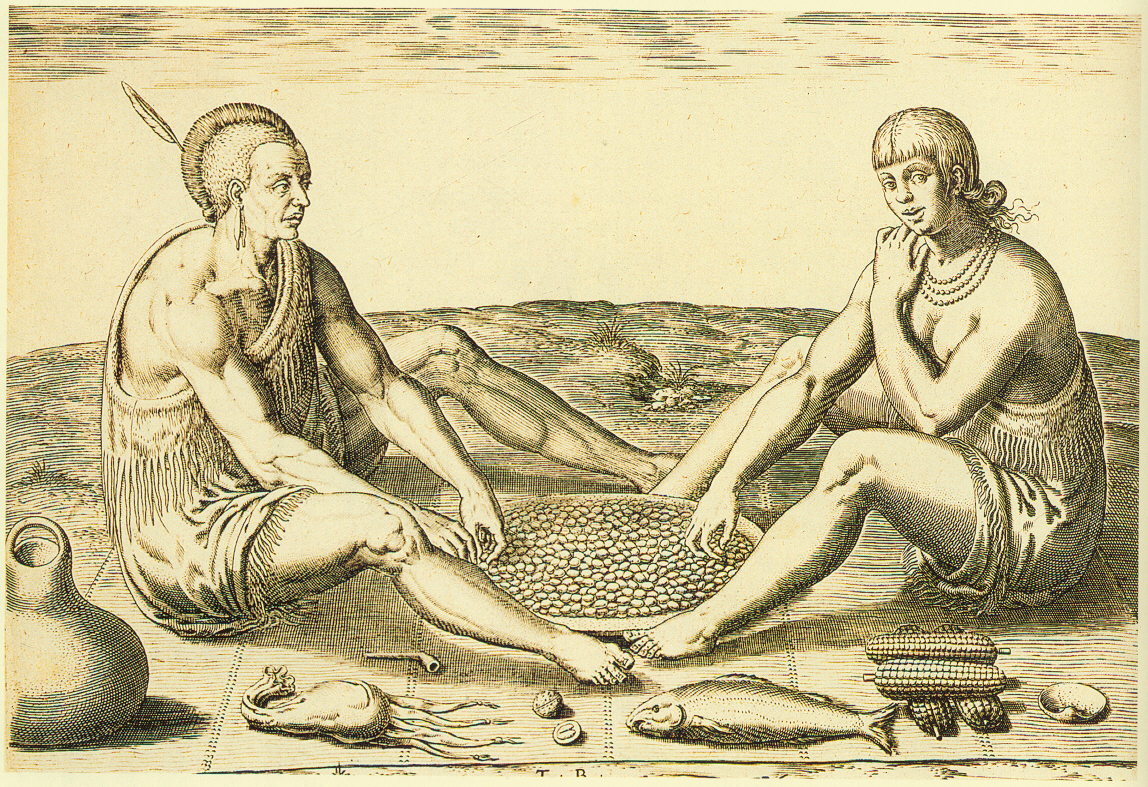 North Carolina Algonquins eating. Engraving by Theodor de Bry after a watercolour painted by John White.